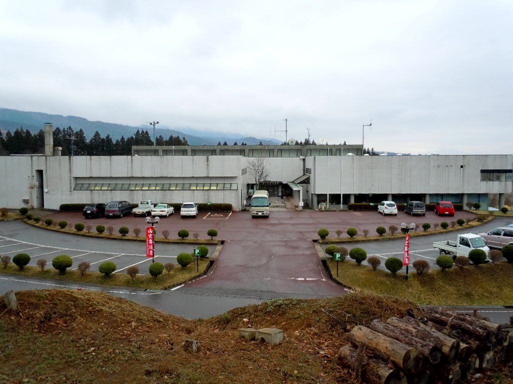 Kitashiobara village office